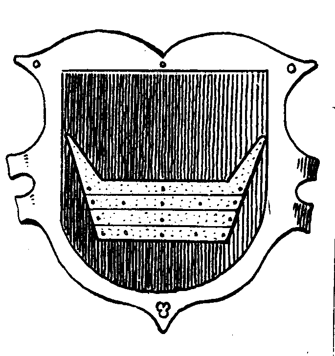 Pobiedziska. Coat of arms.